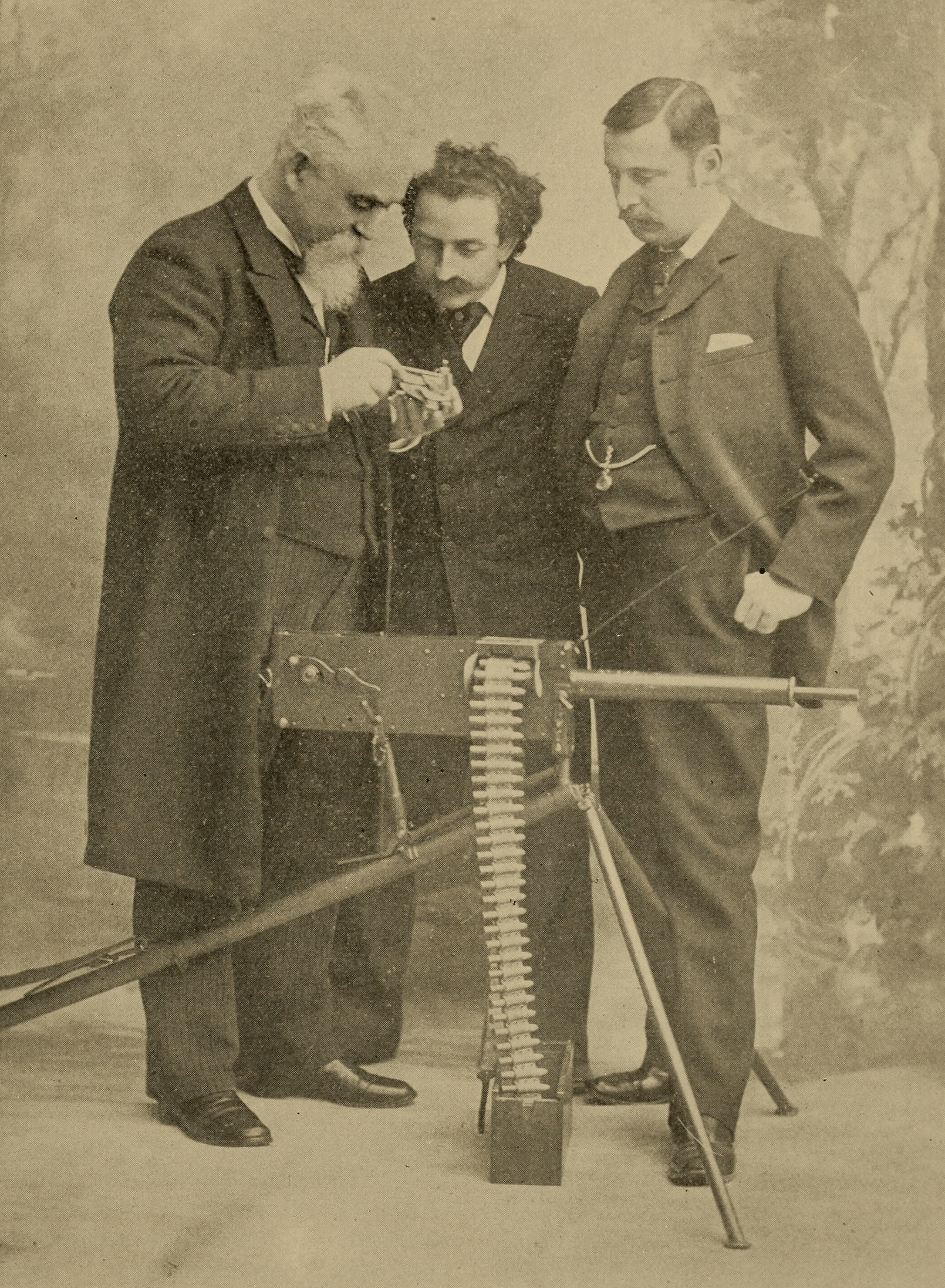 Cassier's Magazine of April 1895 had an article on page 435-456, written by J. Bucknall Smith and titled Some Features of the Inventive Career of Hiram S. Maxim. It was accompanied by a number of illustrations, including this photo of a Hiram Maxim, Louis Cassier and J. Bucknall Smith with a machine gun for Germany, on page 439.